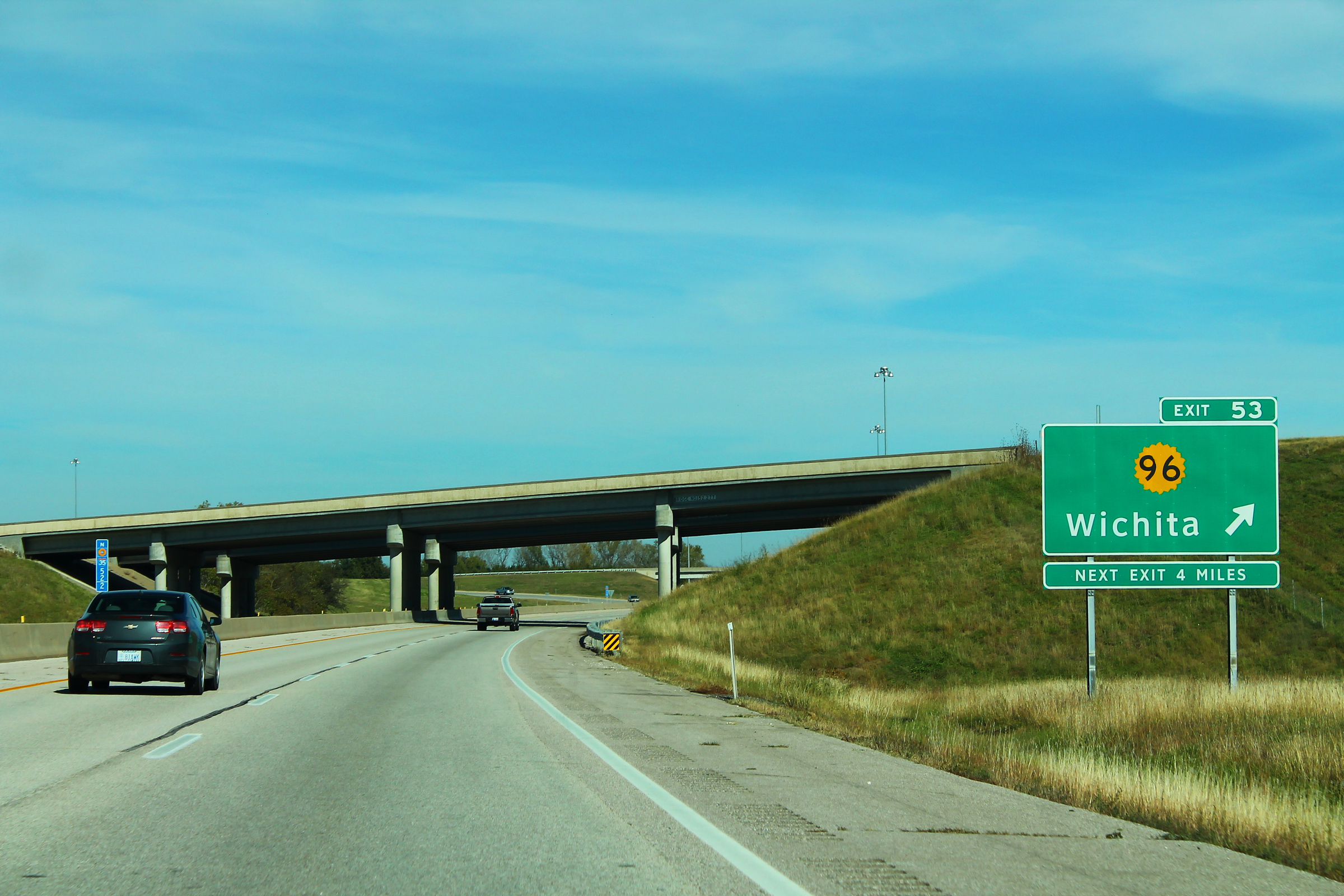 Int35nRoad-Exit53-KS96